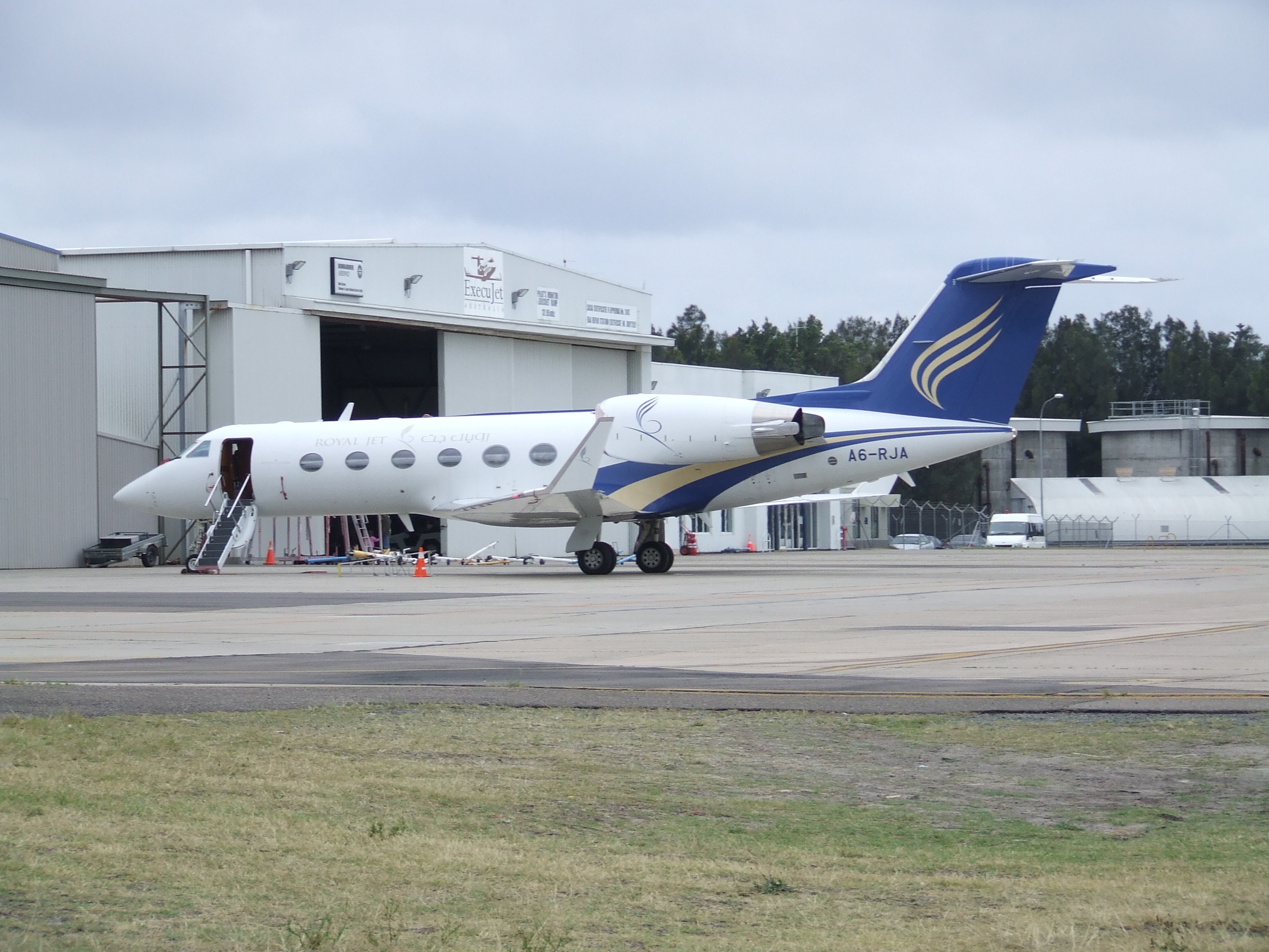 Royal Jet Gulfstream Aerospace G300 in Kingsford Smith International Airport.